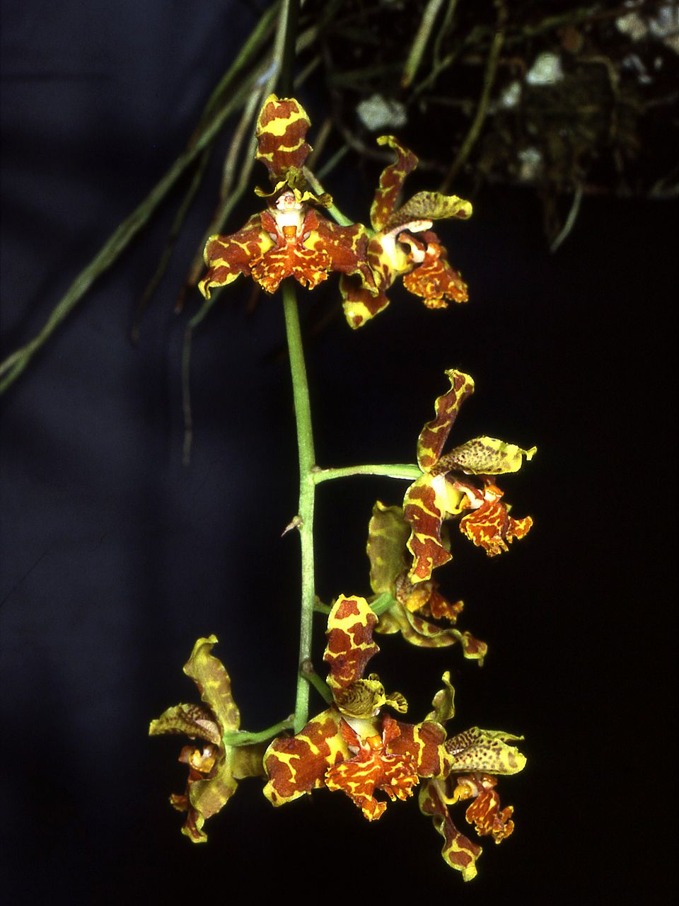 Rudolfiella floribunda - flowers